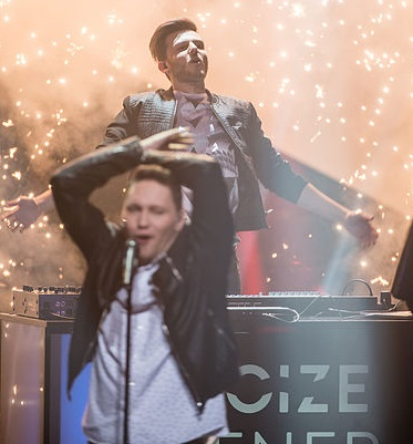 This file has been extracted from another file: 20150305 Hannover ESC Unser Song Fuer Oesterreich Noize Generation 0035.jpg